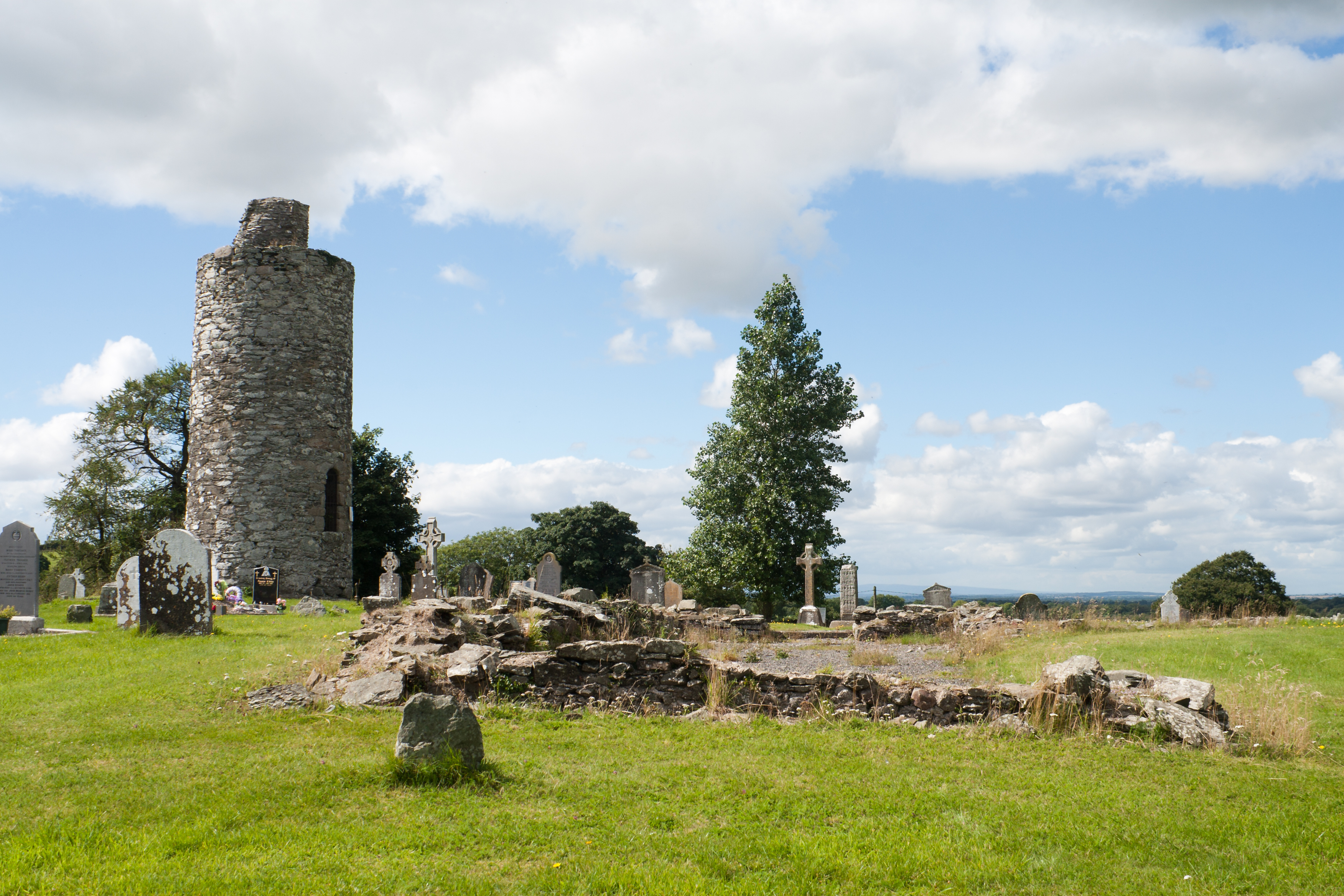 Remains of the church in front of the round tower, looking west.